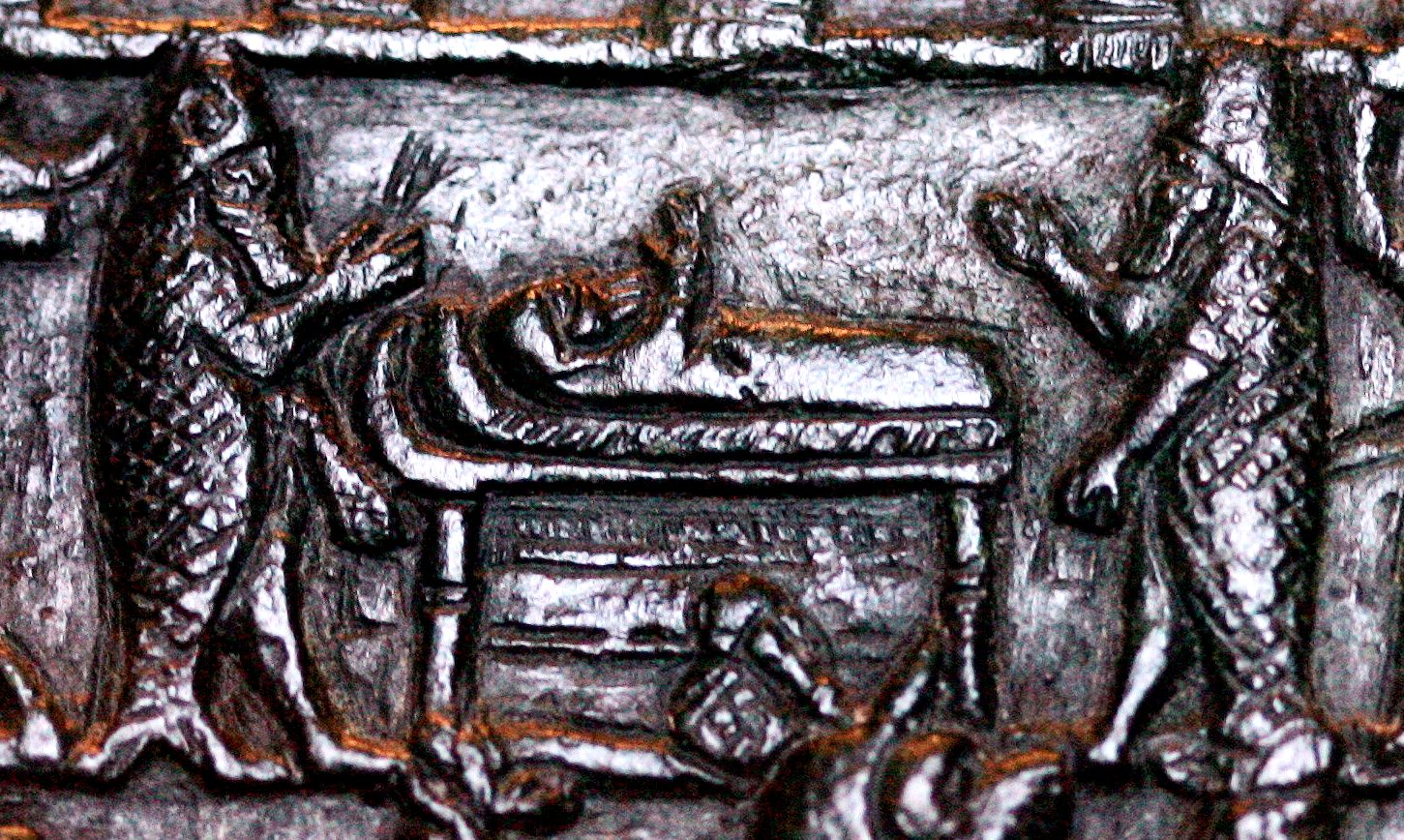 Detail frok Protection plaque against Lamashtu [1] Neo-Assyrian era Bronze